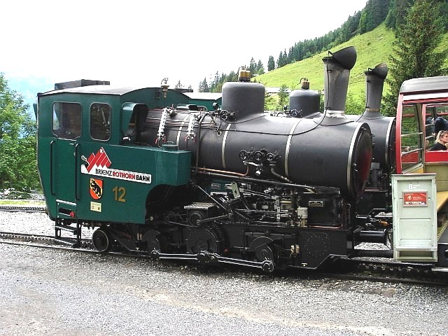 Brienz Rothorn Bahn